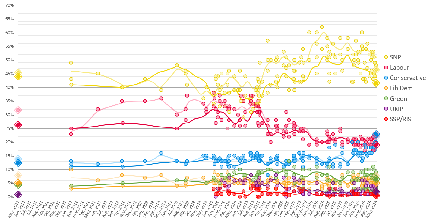 Opinion polling for the 2016 Scottish Parliament election with average 30 day trendline. Semi-transparent lines represent the constituency vote, full lines represent the regional vote.